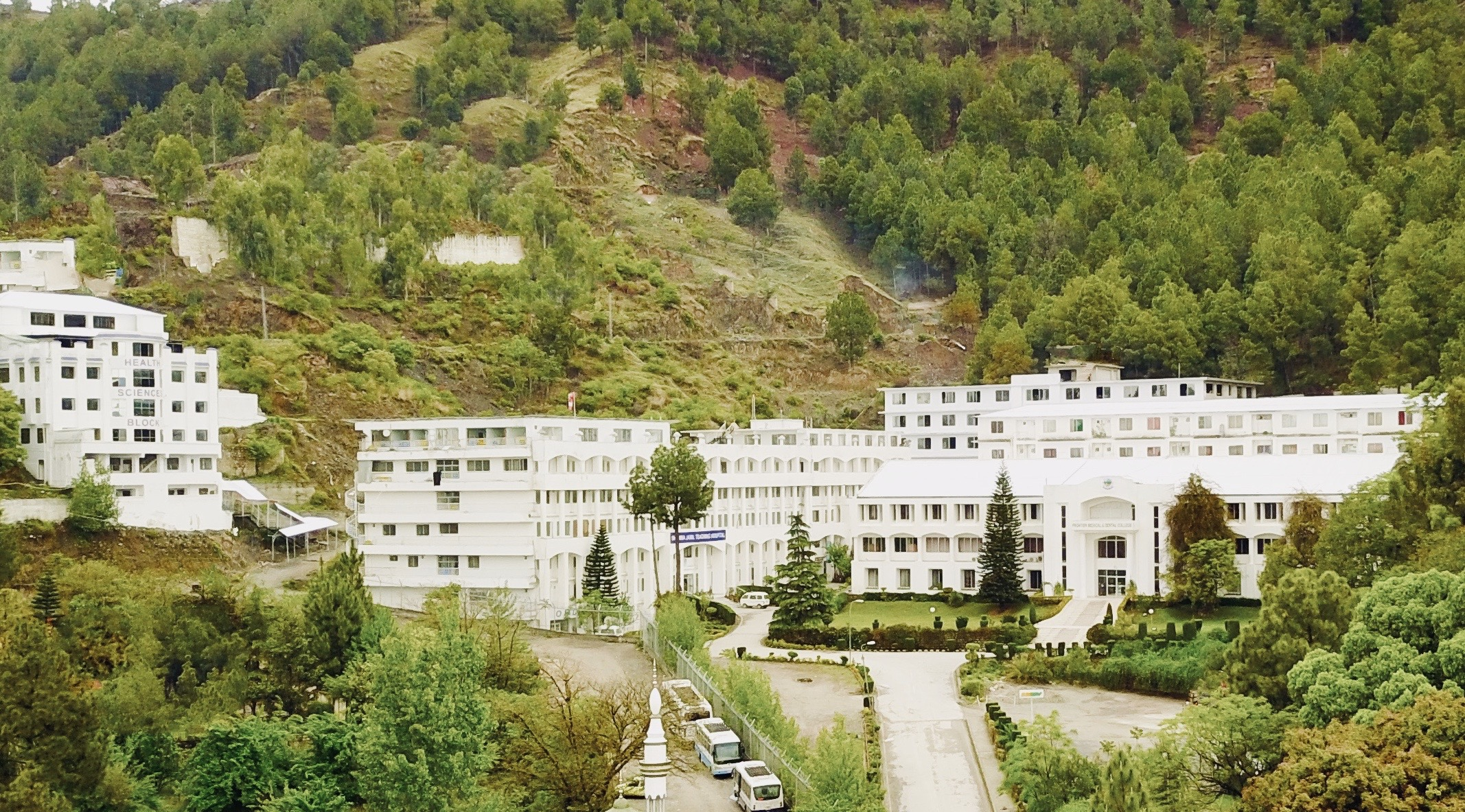 Main campus of Frontier Medical College, Frontier Dental College and Shahina Jamil Hospital